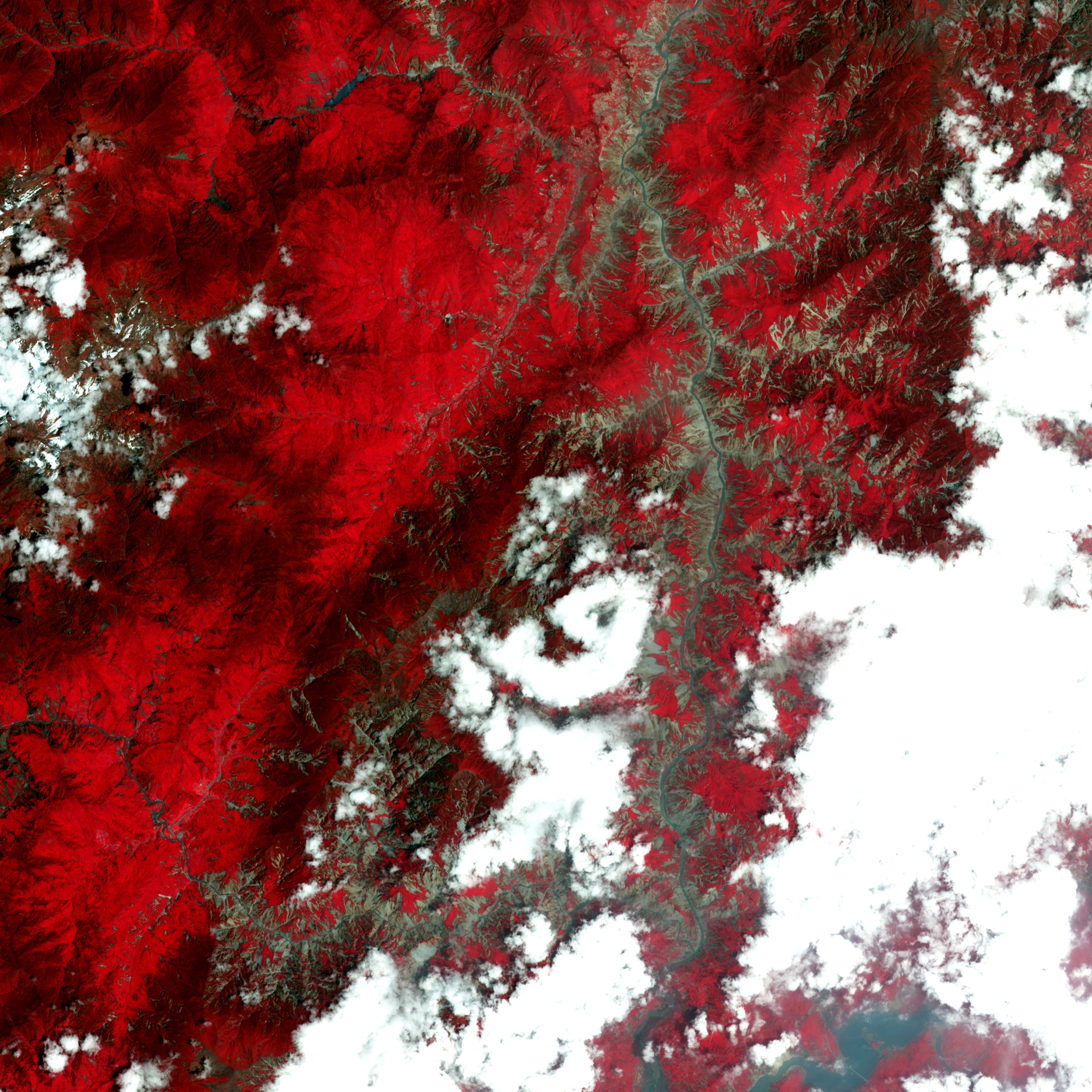 Sichuan Landslides